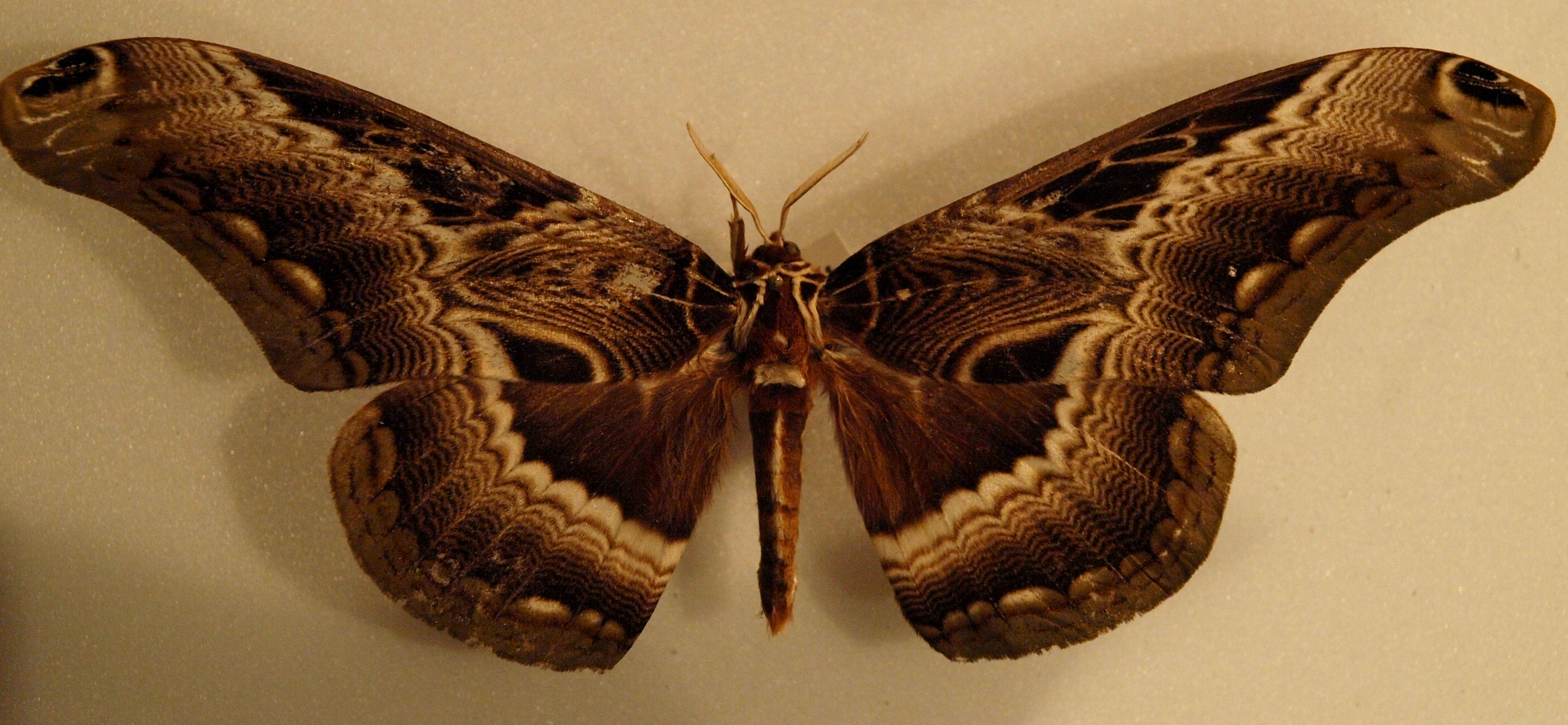 Dactyloceras lucina (Brahmaeidae) from Cameroon. Ex own collection